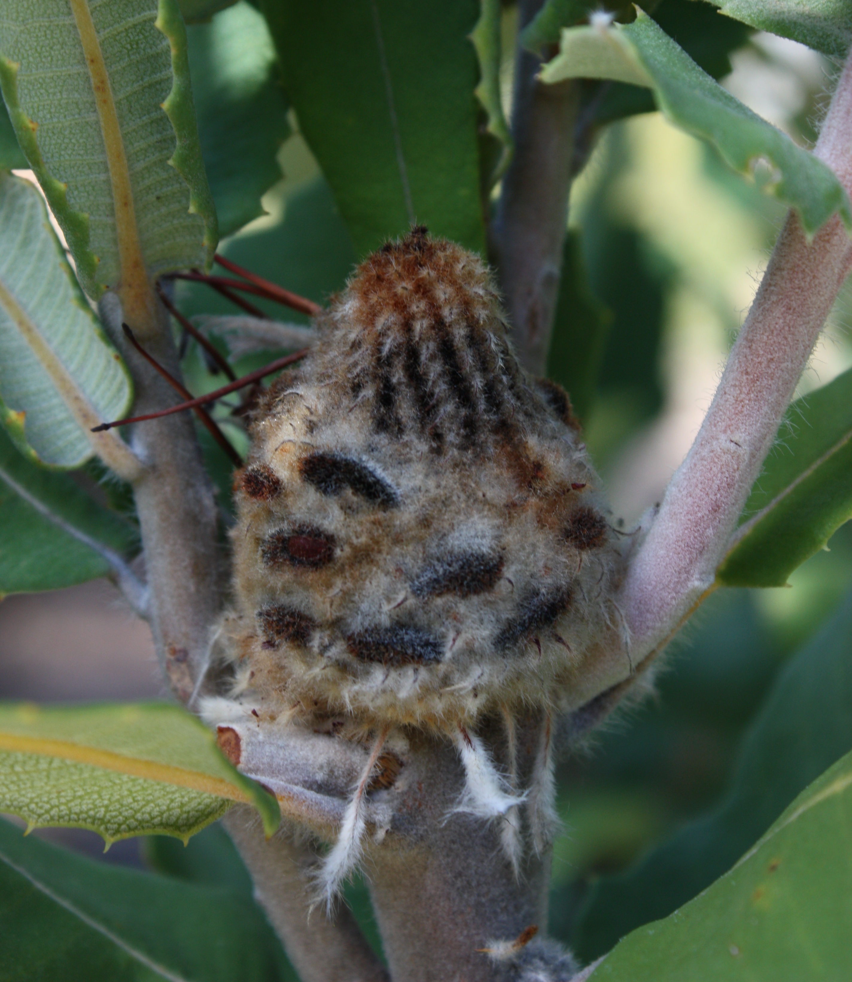 Infructescence of Banksia coccinea, in cultivation, Kings Park, Perth, Western Australia